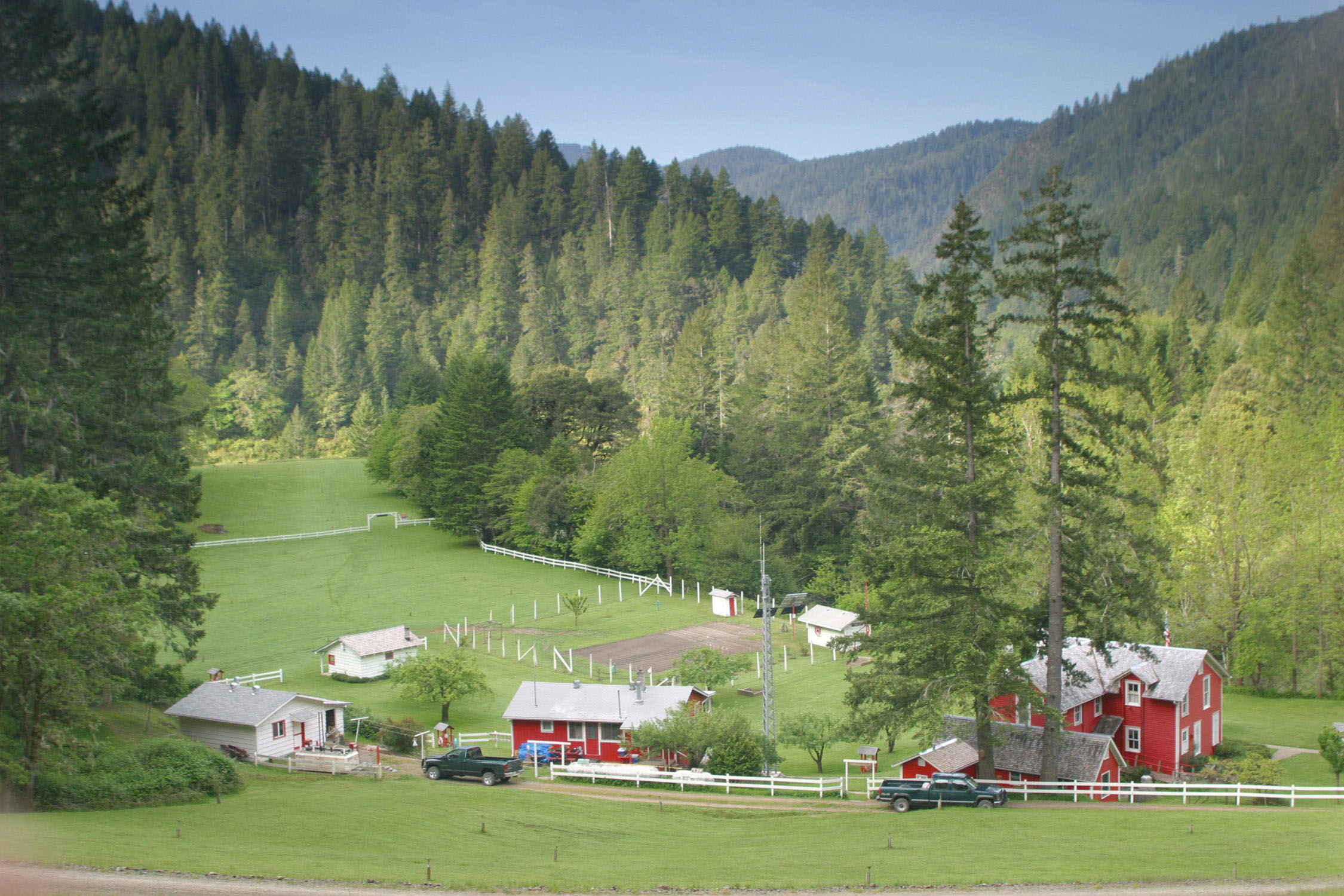 Rogue River Ranch National Historic Site, located on the north shore of the Rogue River at the mouth of Mule Creek in Curry County in the U.S. state of Oregon